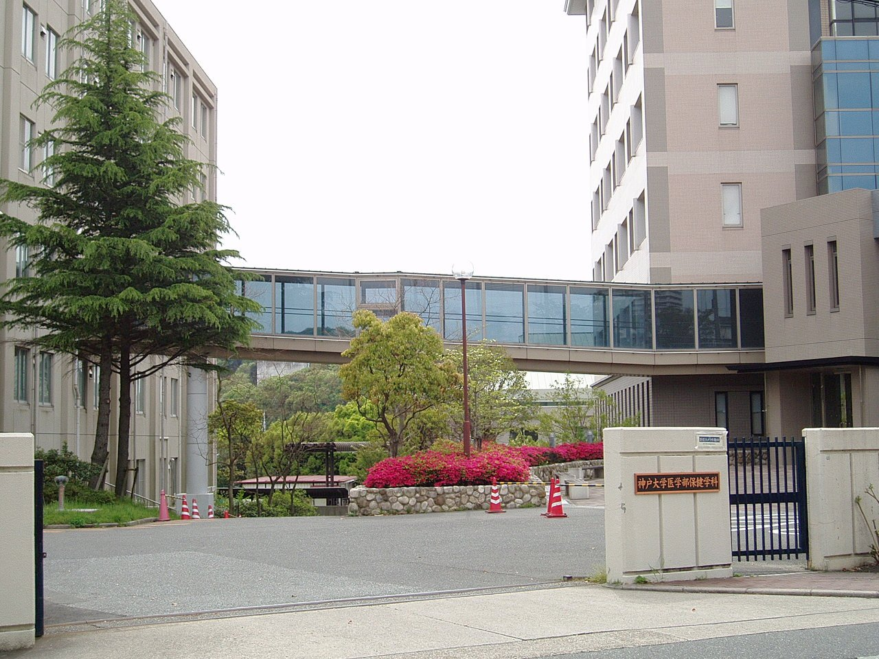 The main entrance to Myodani Campus (Faculty of Health Sciences), Kobe University, located in Tomogaoka, Suma-ku, Kobe, Hyogo Pref., Japan.